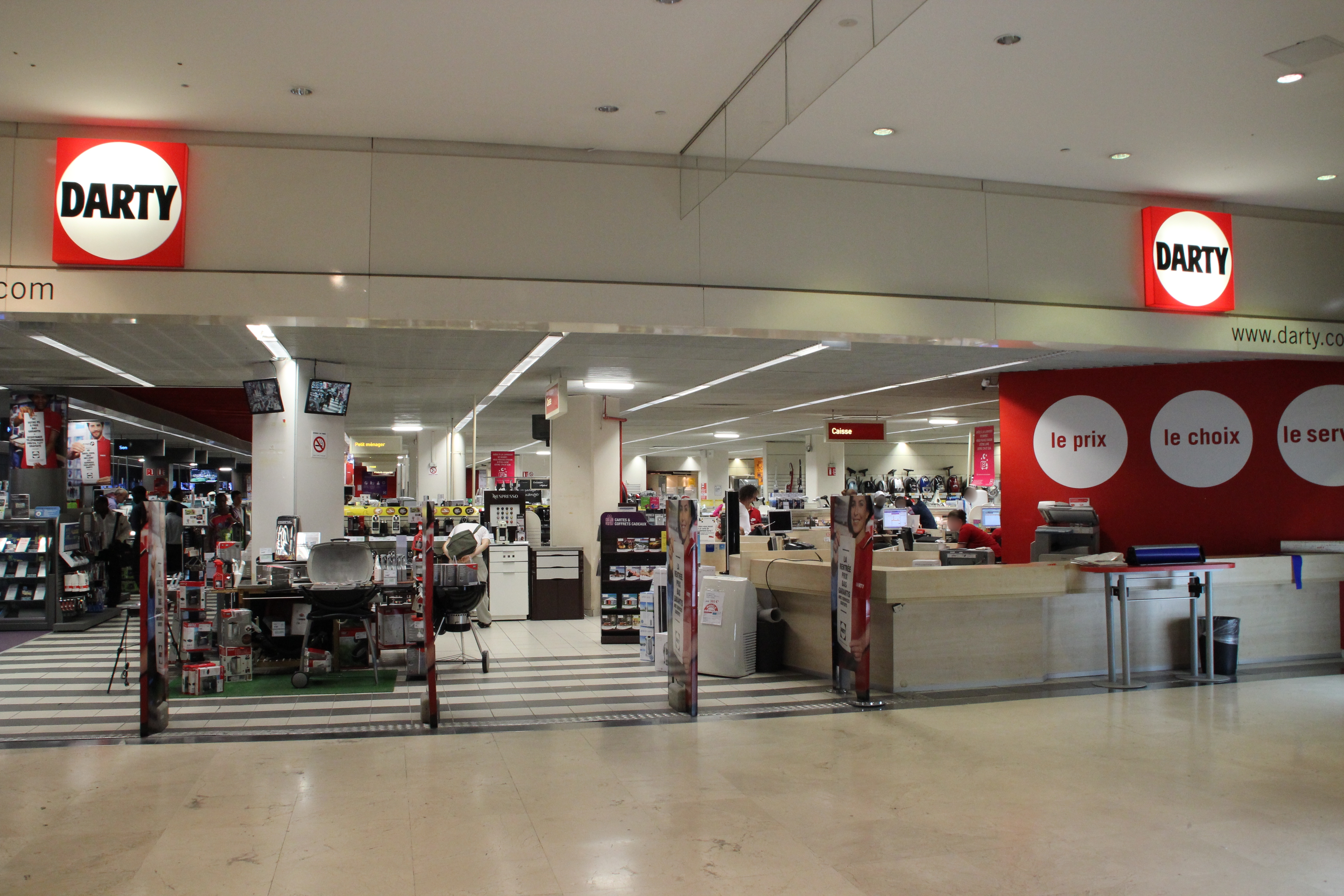 Forum des Halles shopping center in Paris, France.